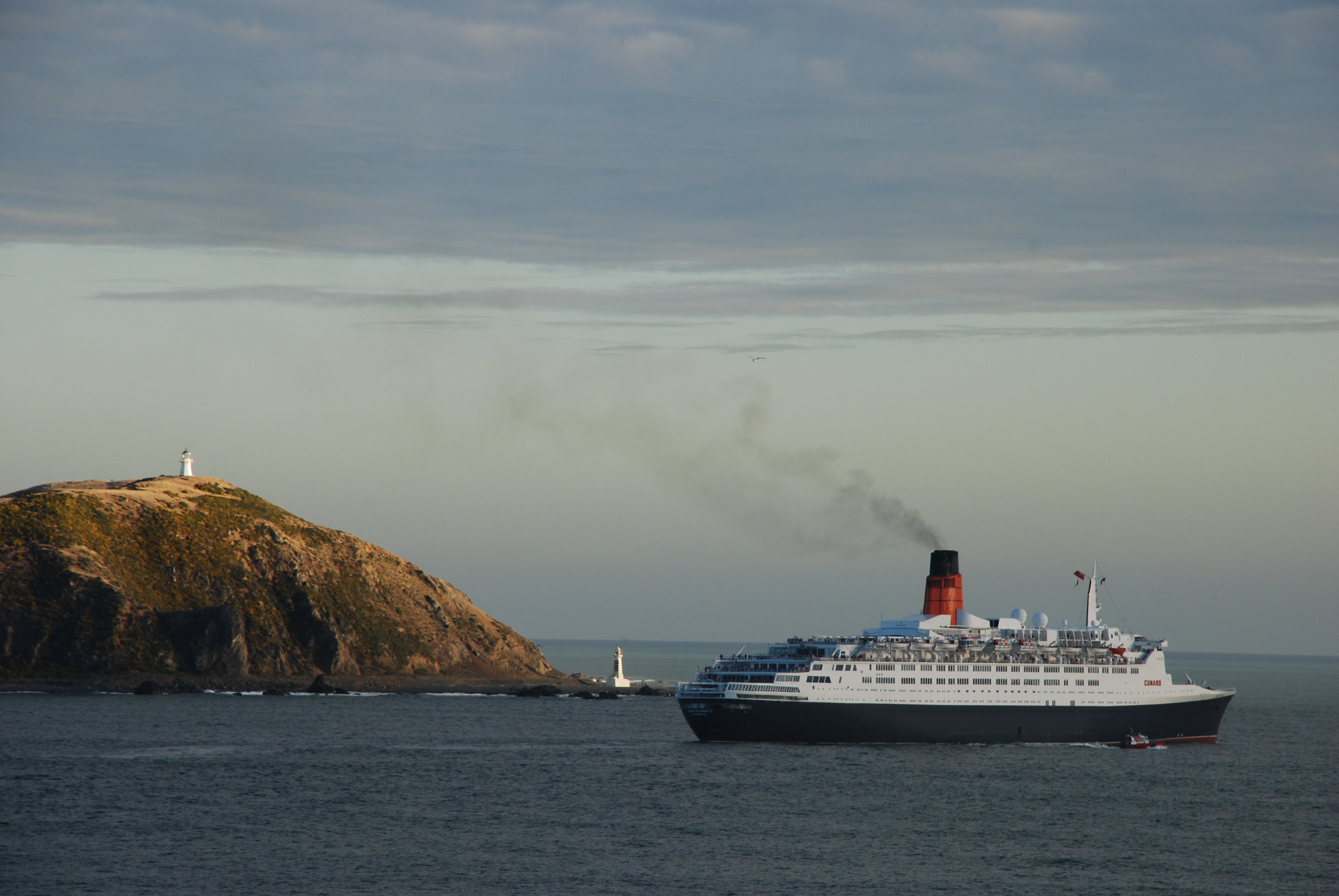 QE2 at Pencarrow Head, Wellington, New Zealand, 13 Feb. 2007